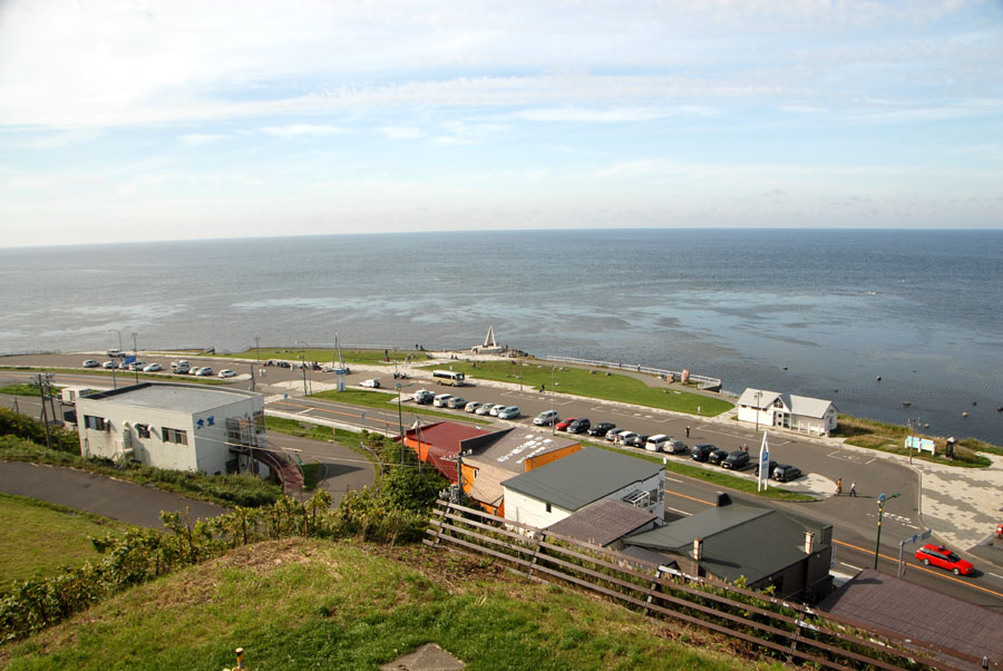 宗谷岬是日本最北端的海岬，此照為岬尖最北端紀念碑附近地區的鳥瞰。 The bird view around Cape Soya, the most northern cape of Japan.